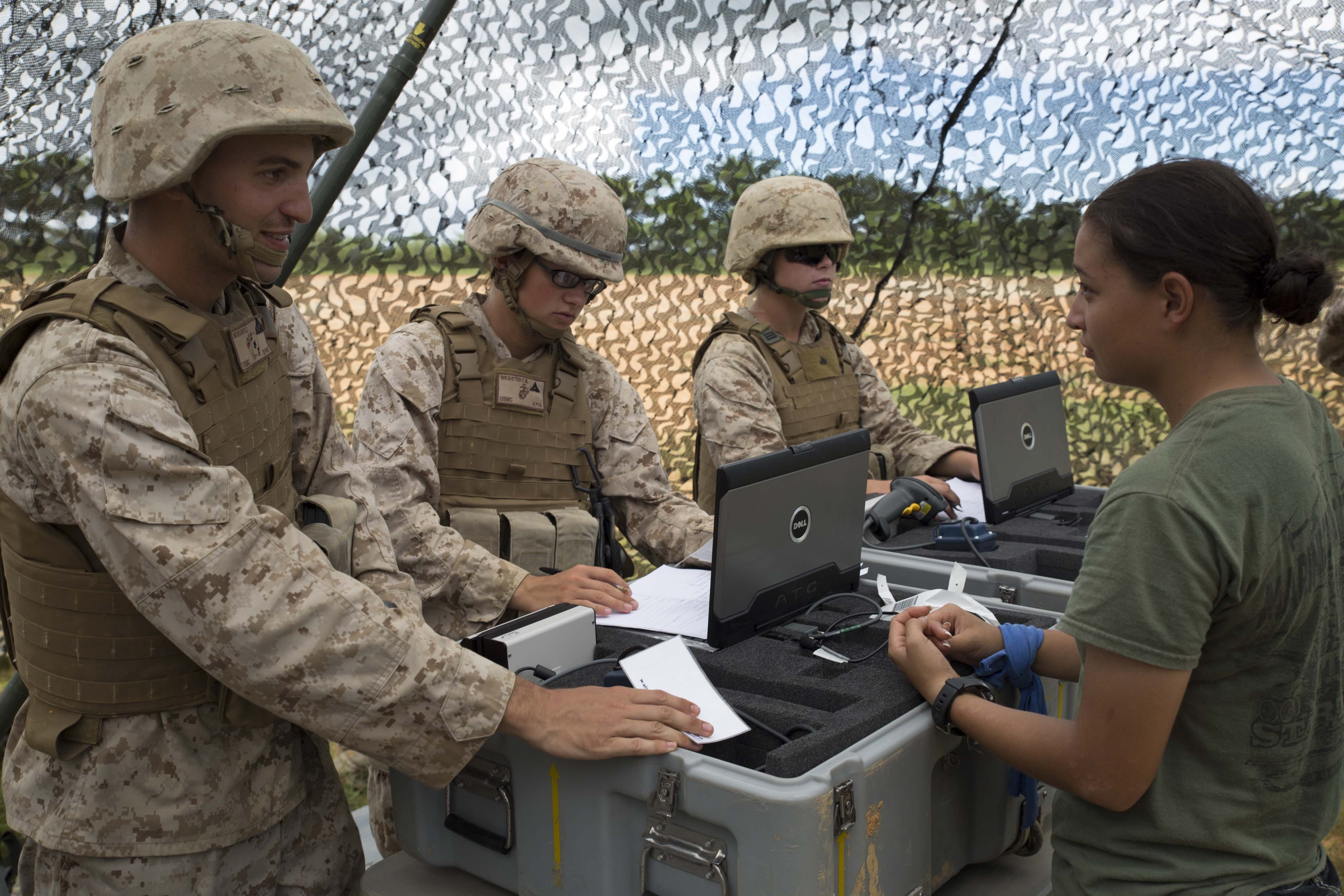 Lance Cpl. Ana L. Ramirezjimenez, right, a Dallas, Texas, native, participates in non-combatant evacuation operations Aug. 21 at the Central Training Area. Ramirezjimenez role played as an evacuee during the scenario who was processed through the control center. Ramirezjimenez is a warehouse clerk with Combat Logistics Battalion 4, 3rd Marine Logistics Group, III Marine Expeditionary Force. The control center Marines are with Combat Logistics Regiment 3, 3rd MLG. (U.S. Marine Corps photo by Lance Cpl. Matt Myers/Released)